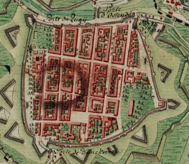 Nieuwpoort, Belgium_;_ detail from Ferraris_Map